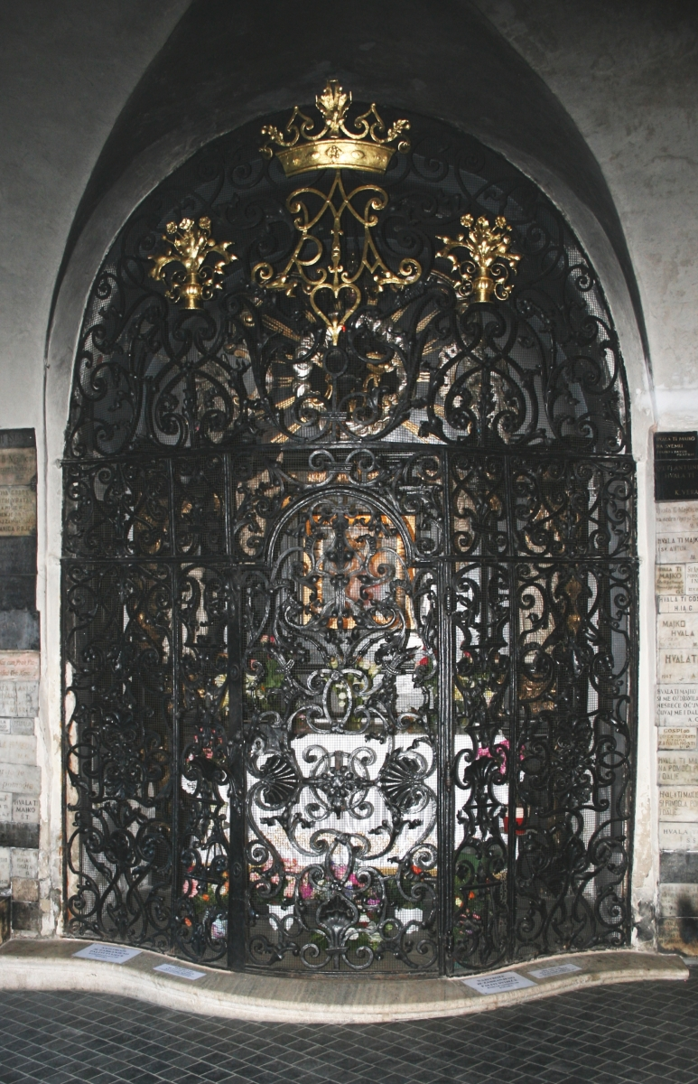 Our Lady of Stone gates, Zagreb